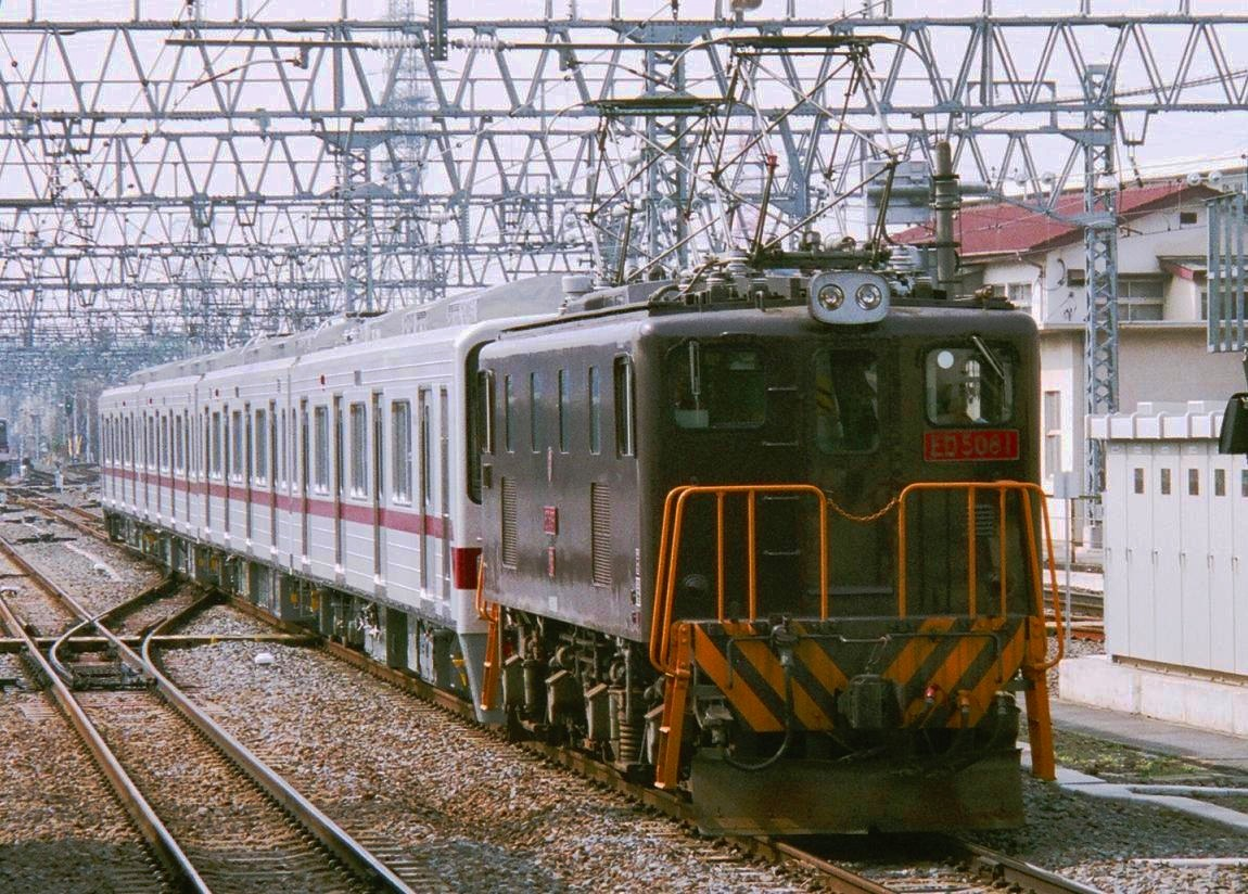 Tobu Railway Class ED5080 electric locomotive number ED5081 hauling a newly delivered 30000 series EMU near Tobu Dobutsu-koen Station